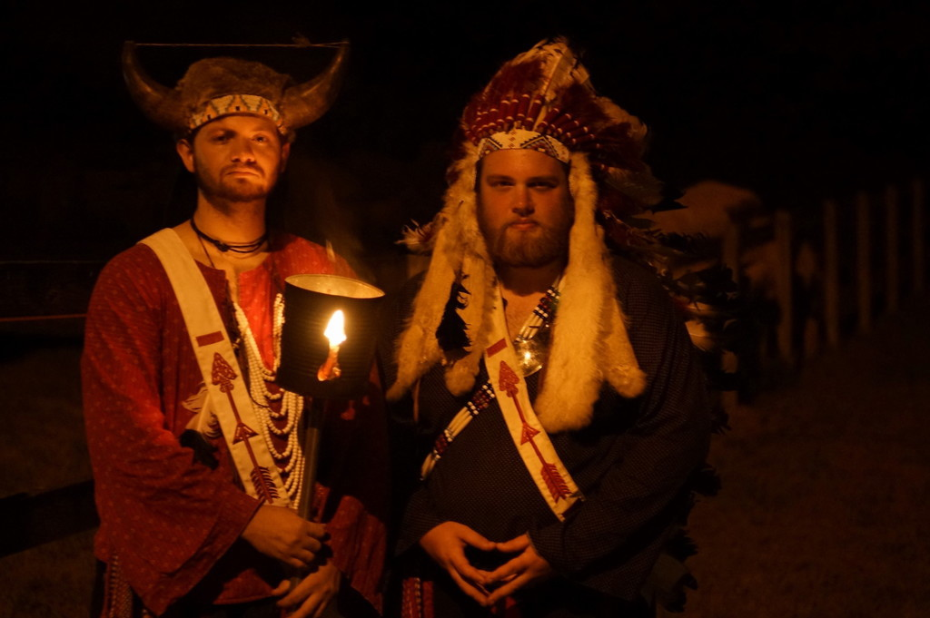 Order of the Arrow Vigil Honor members in regalia performing an OA Call Out ceremony at Kia Kima Scout Reservation.